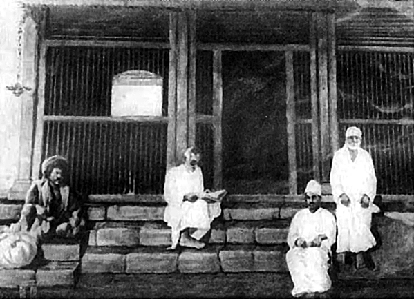 Sai Baba of Shirdi with devotees (abdullah and others), sitting on the steps of his mosque Dwarakamai